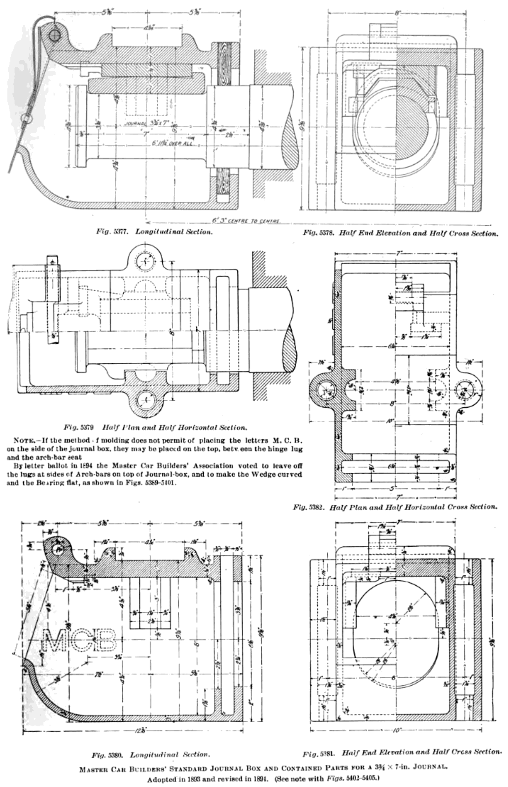 An engineering drawing of a journal box with cross-sectional views.